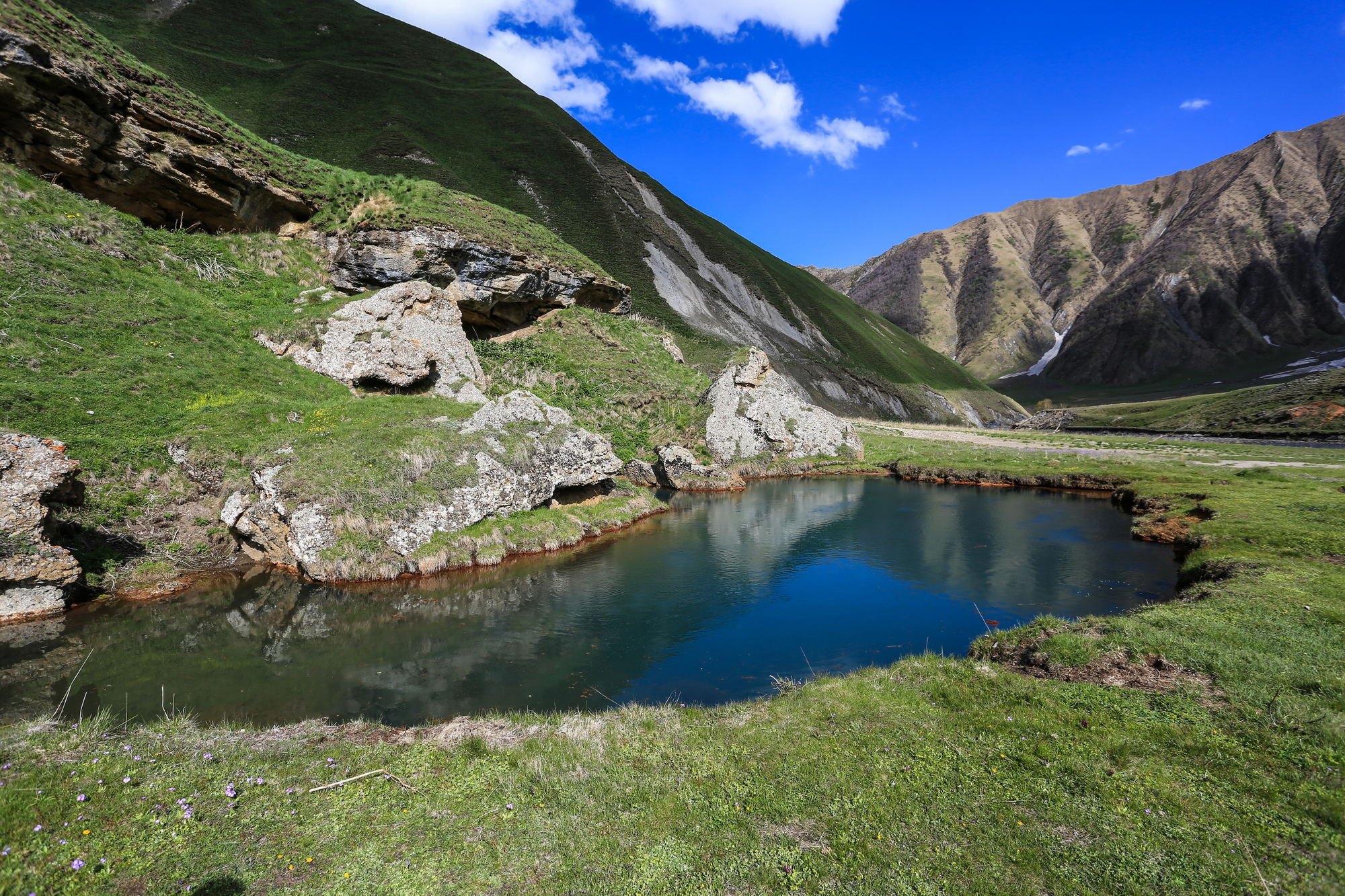 Attraction: it is a small lake created by the carbon dioxide filled upward stream flowing to the surface from carbonate rocks of Upper Jurassic period. The lake "boils" loudly from carbon dioxide bubbles. The debit of the stream is 2.5 liters per 24 hours. The total surface area of the lake is 0.04 ha. The extraction of gas in not so windy weather causes carbon dioxide to accumulate in lower layers. Small animals suffocate when they get near the lake, which is why you may come across dead animals, such as: mice, lizards, frogs and some birds. Location: Kazbegi Municipality, Truso Gorge, left bank of River Terek, to the east from Village Abano, at an altitude of 2,127 m above sea level. Coordinates: X: 452581 Y: 4715247 How to get there: the nearest populated areas are villages Keterisi and Abano (where locals stay only seasonally), and village Kobi is situated little farther, which is 136 km away from Tbilisi. Travel to Kobi from Tbilisi will take 2 hrs and 10 min. Village Kobi – Abano Lake Natural Monument – 18.6 km dirt road. Length of the trip – 1 hour and Stepantsminda Borough – Abano Lake Natural Monument – 35 km, from which 17 km is a paved road and 18 km – dirt road. Length of the trip – 2 hours; Village Keterisi – Natural Monument – 2.8 km, you must use the detour pedestrian/horse road on Terek River. Length of the trip – 30 min.